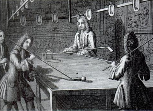 Three gentlemen playing a billiard game with maces, c.1730